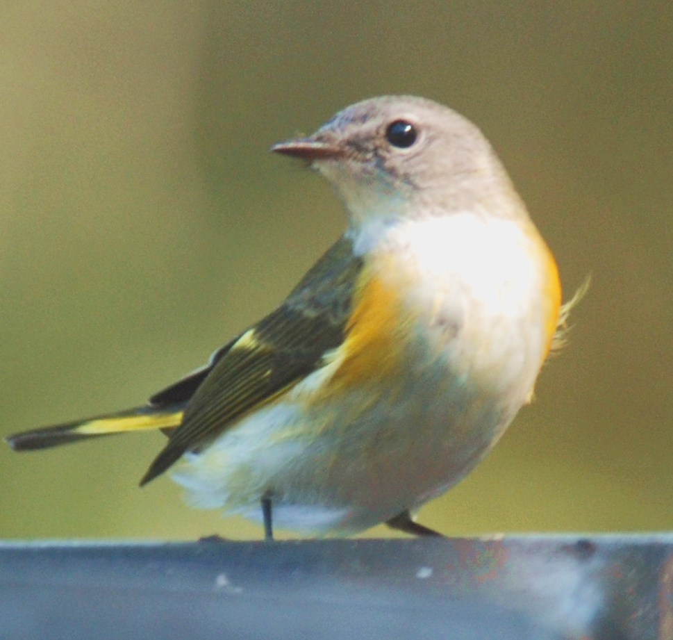 The female American Redstart (Setophaga ruticilla) around Sapelo Island.